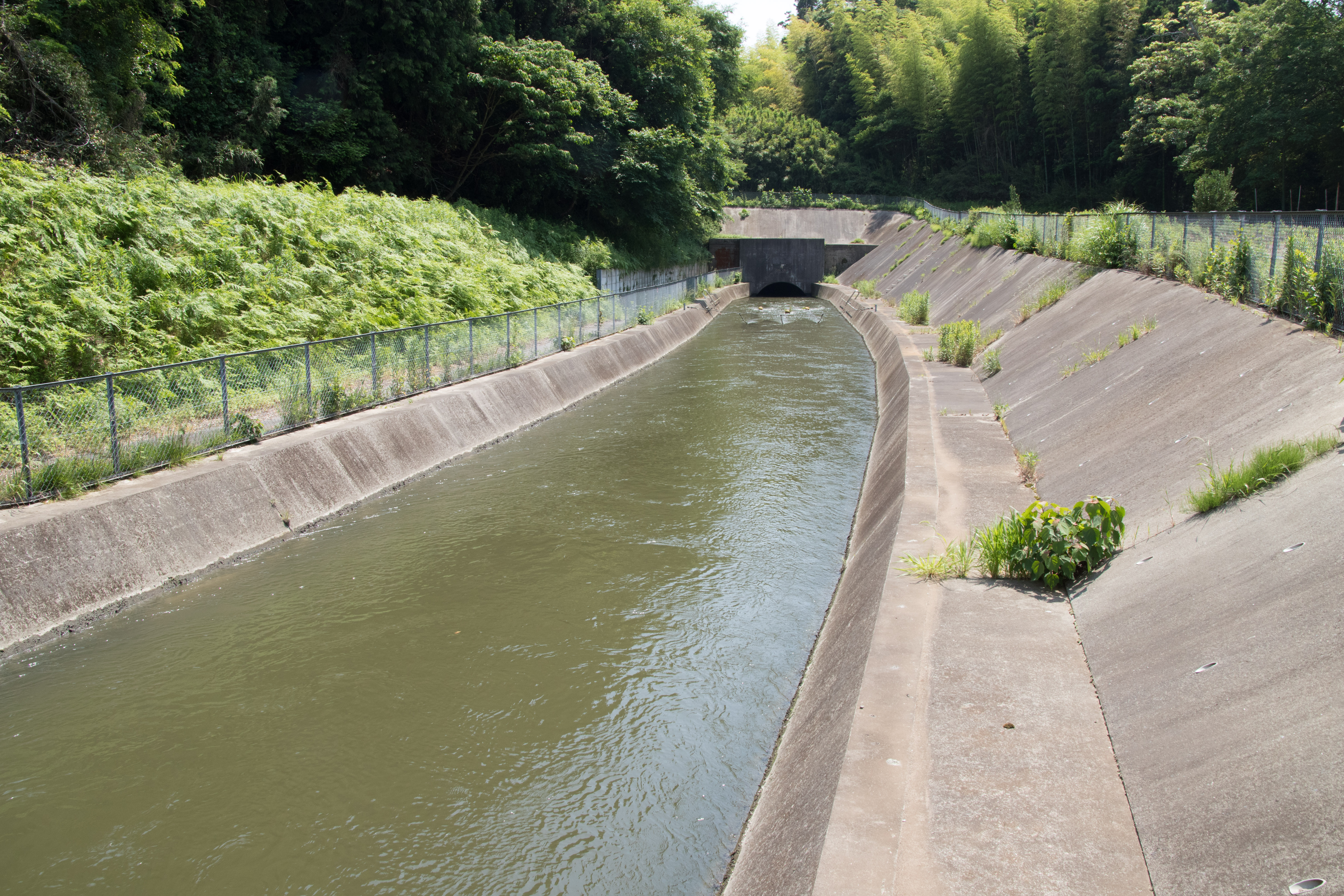 Northern trunk canal (Hokubu Kansen 北部幹線) of Ryoso Aqueduct(Ryōsō Yōsui 両総用水), Katori City, Chiba Pref., Japan